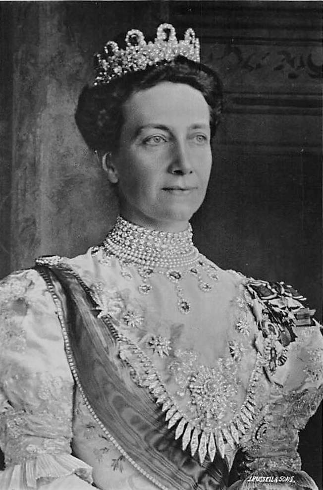 photo of queen victoria